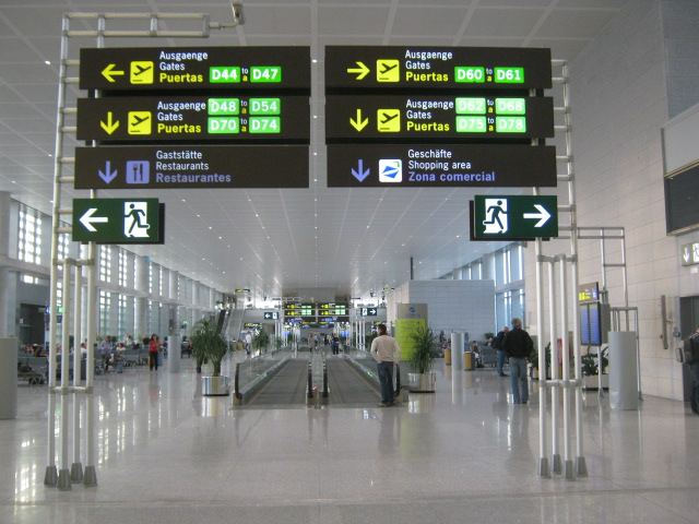 New Termianl Malaga Airport